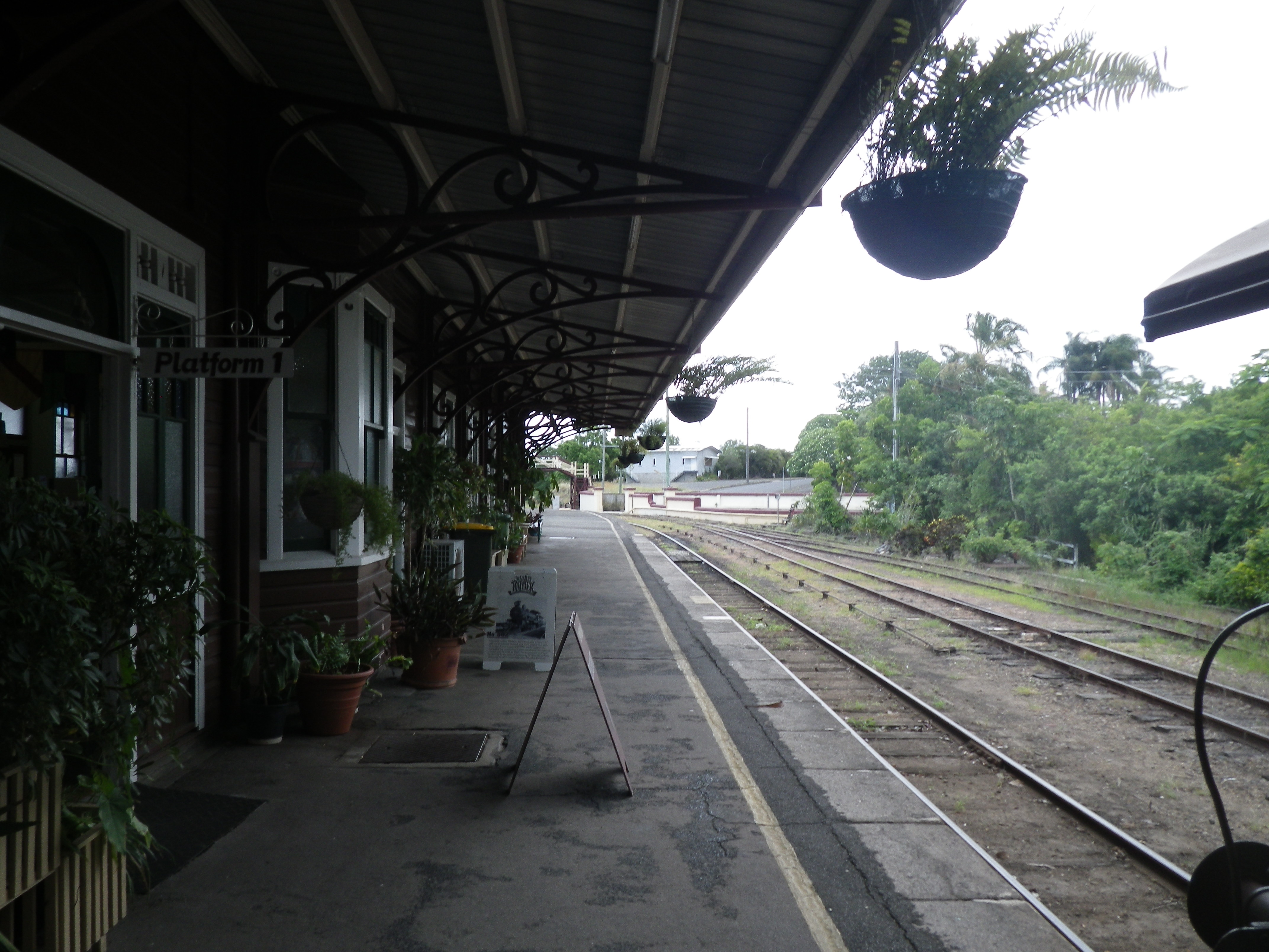 Gympie Railway Station Complex 2012 - western side of platform